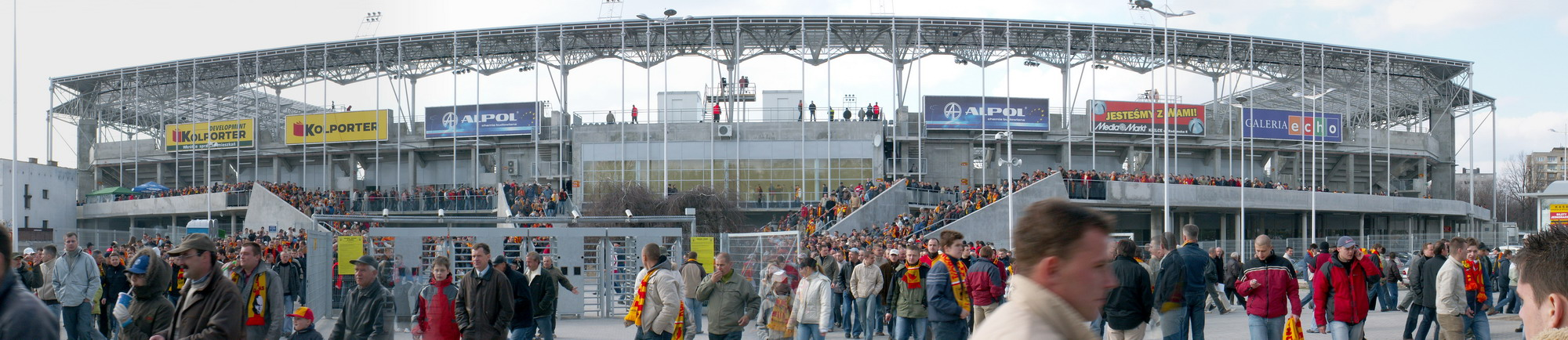 Panorama of new stadium in Kielce (Poland)